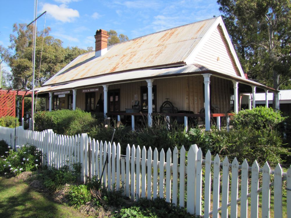 Customs House Museum (2012) - angle view